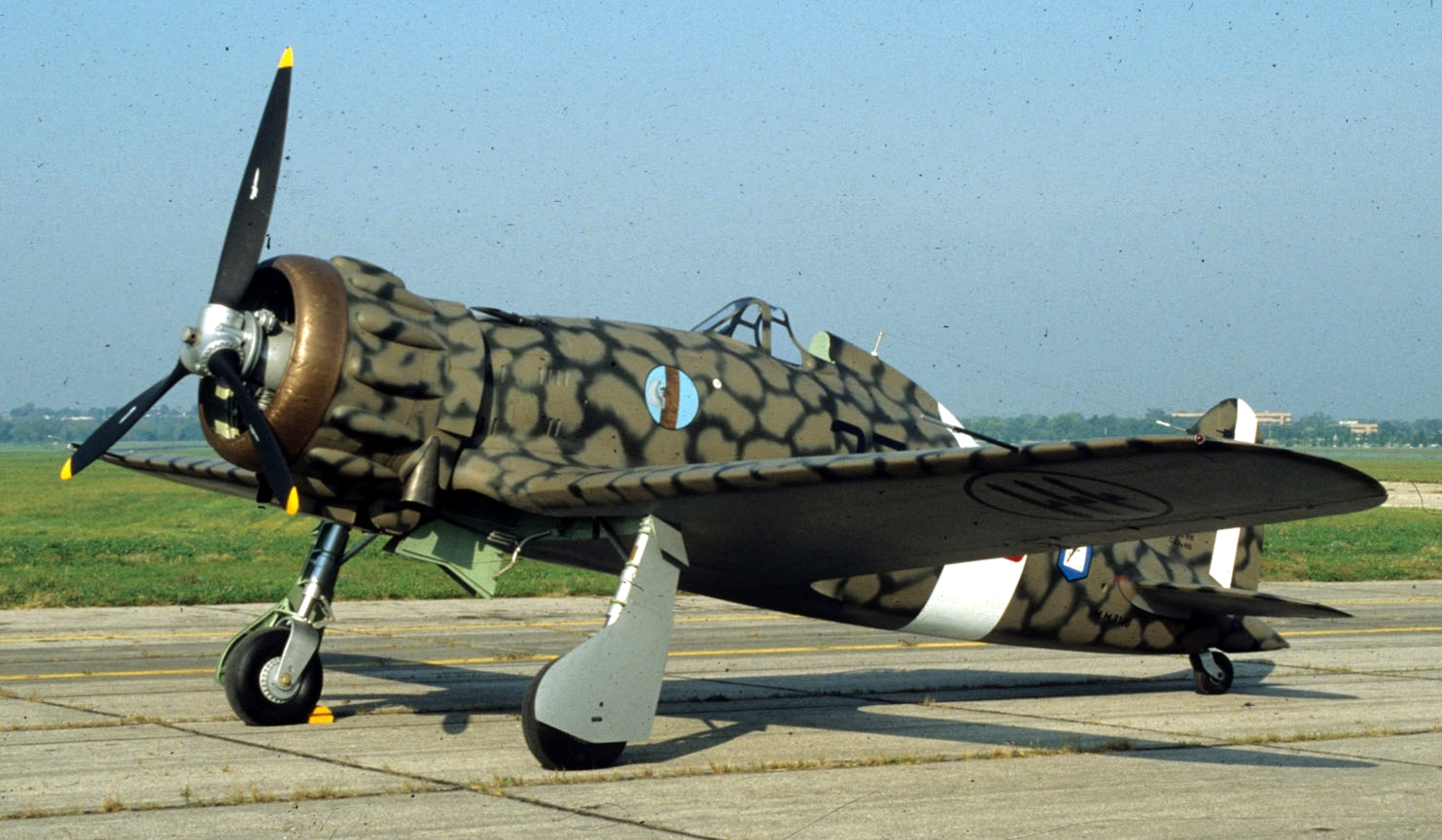 The Macchi M.C.200 Saetta was an Italian fighter during the Second World War. This model was captured during the Nord African campaing, transferred in Unites States and was restored in 1989. Now it is on display at USAF Museum.